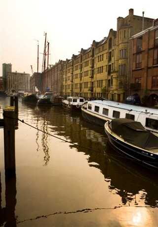 The Veem building in Amsterdam, The Netherlands